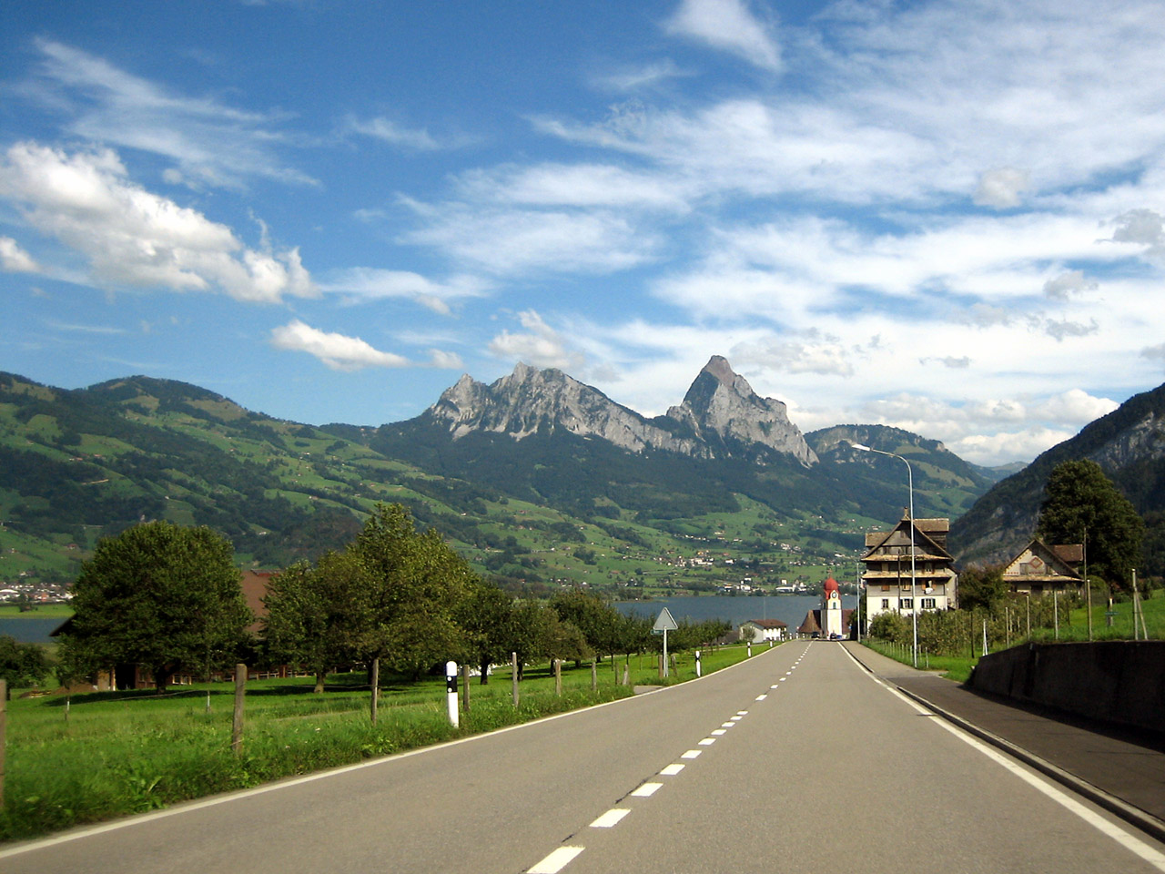 Entering village of Lauerz en route from Goldau, Lauerzersee with Mythen in the background, Canton of Schwyz, Switzerland.